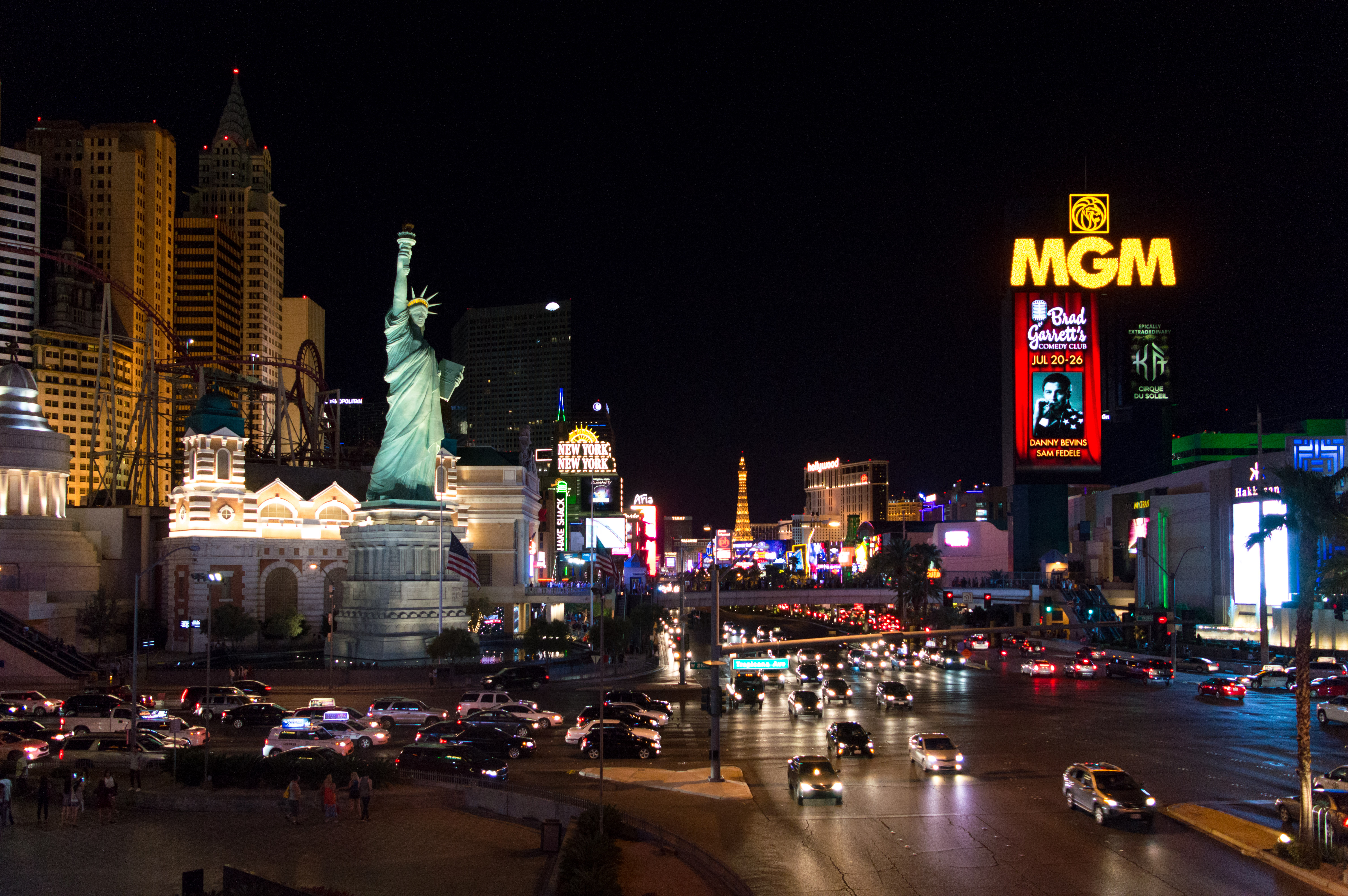 The Las Vegas Strip in the evening with New York New York hotel on the left and MGM Grand on the right.